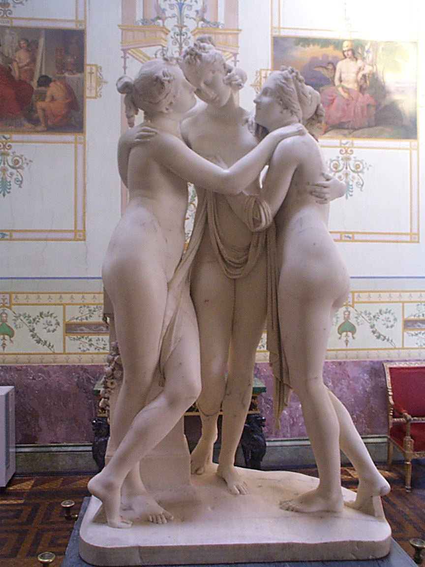 From the youngest to oldest the Graces were: Aglaea ("Beauty"), Euphrosyne ("Good Cheer"), and Thalia ("Festivities"). Also known as the Charites (Greek Mythology name) or Gratiae by the Romans. They appear in many works of art, such as Boticelli's Primavera at the Uffizi gallery.